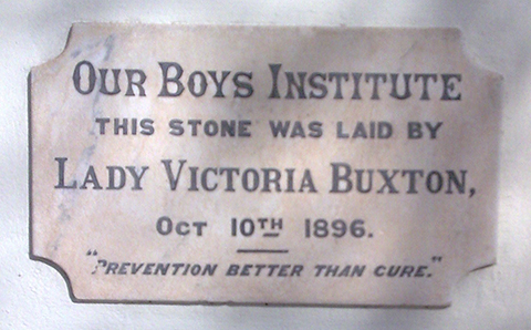 Plaque located on facade of Wakefield Residence 221 Wakefield St Adelaide, South Australia, stating "Our Boys Institute - This stone was laid by Lady Victoria Buxton, Oct 10th 1896 - Prevention better than cure"